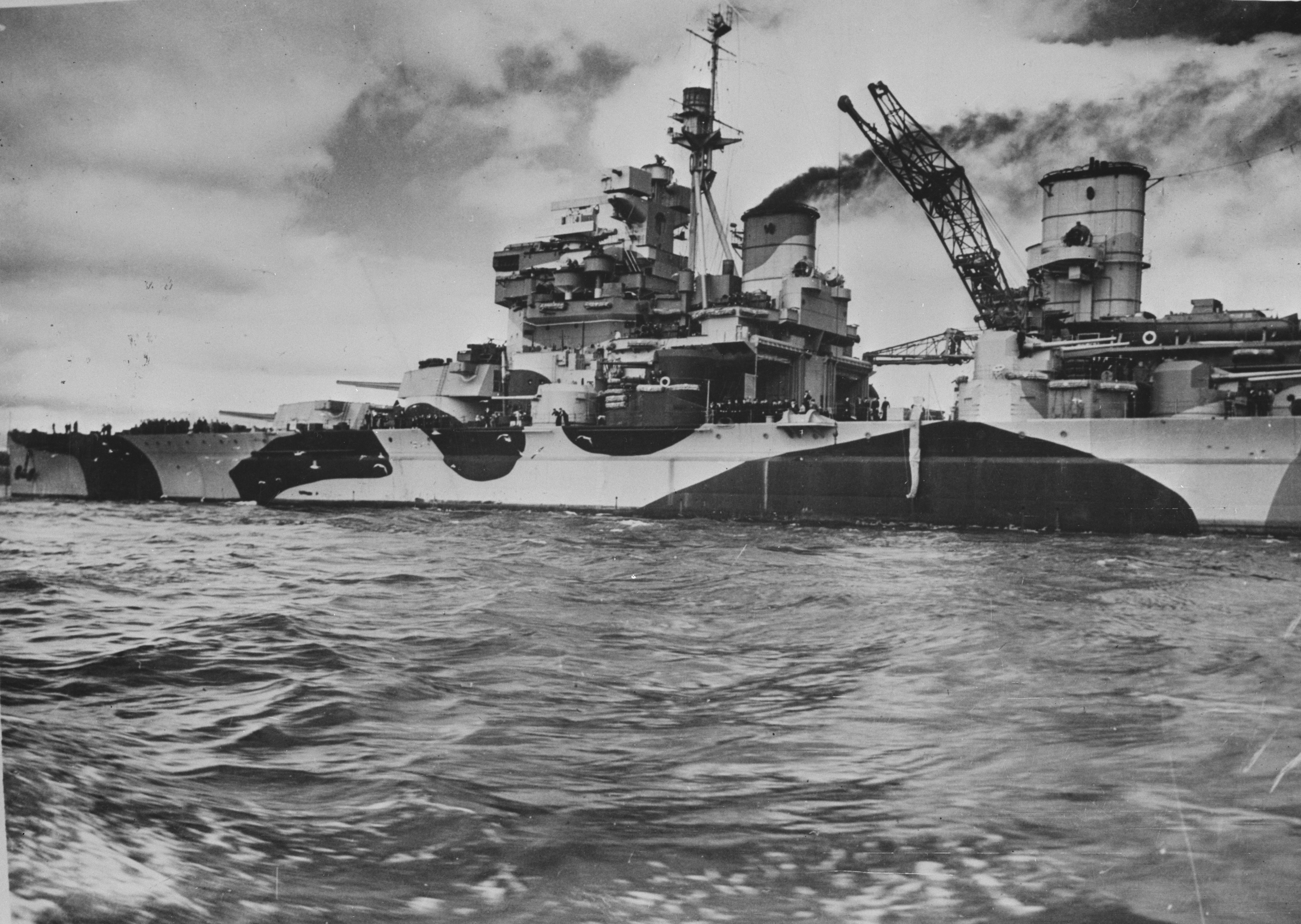 The Royal Navy battleship HMS Howe (32).